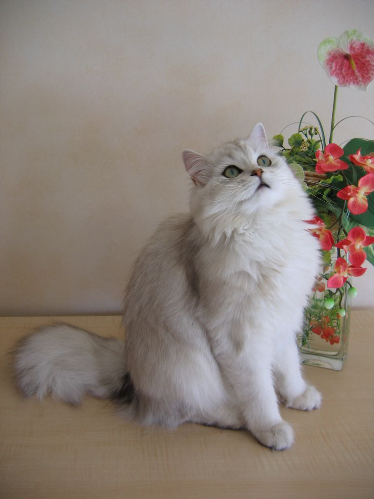 British Longhair Black Silver Shaded